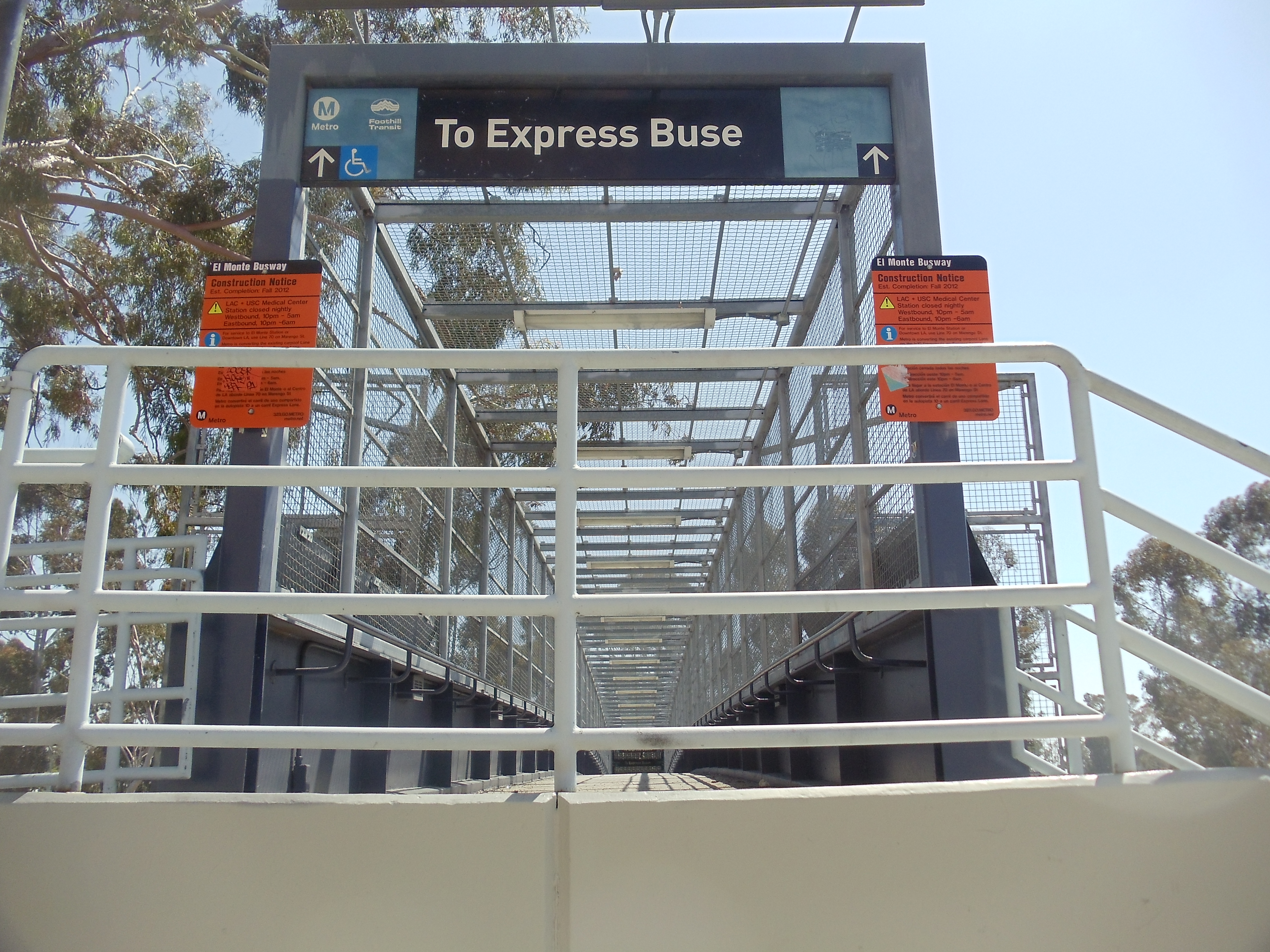 Entrance to the station.